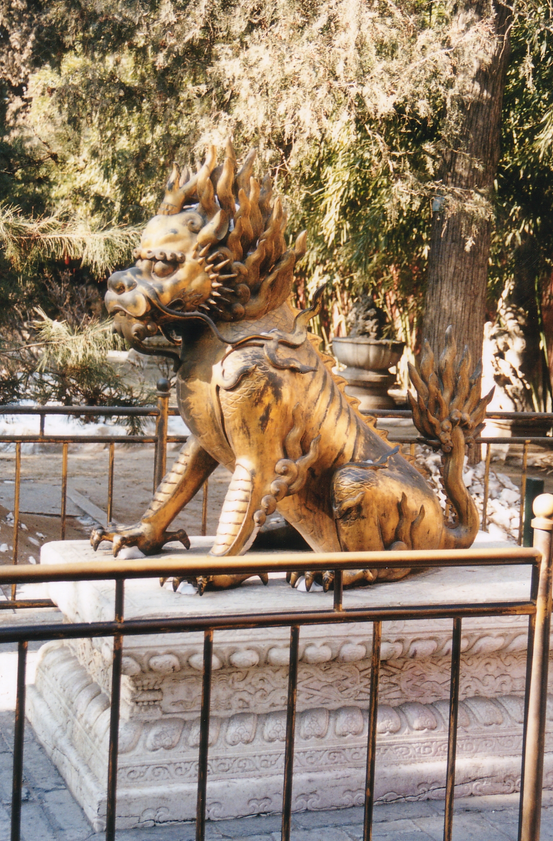 I`m an author of this picture, done in Peking in 2004.